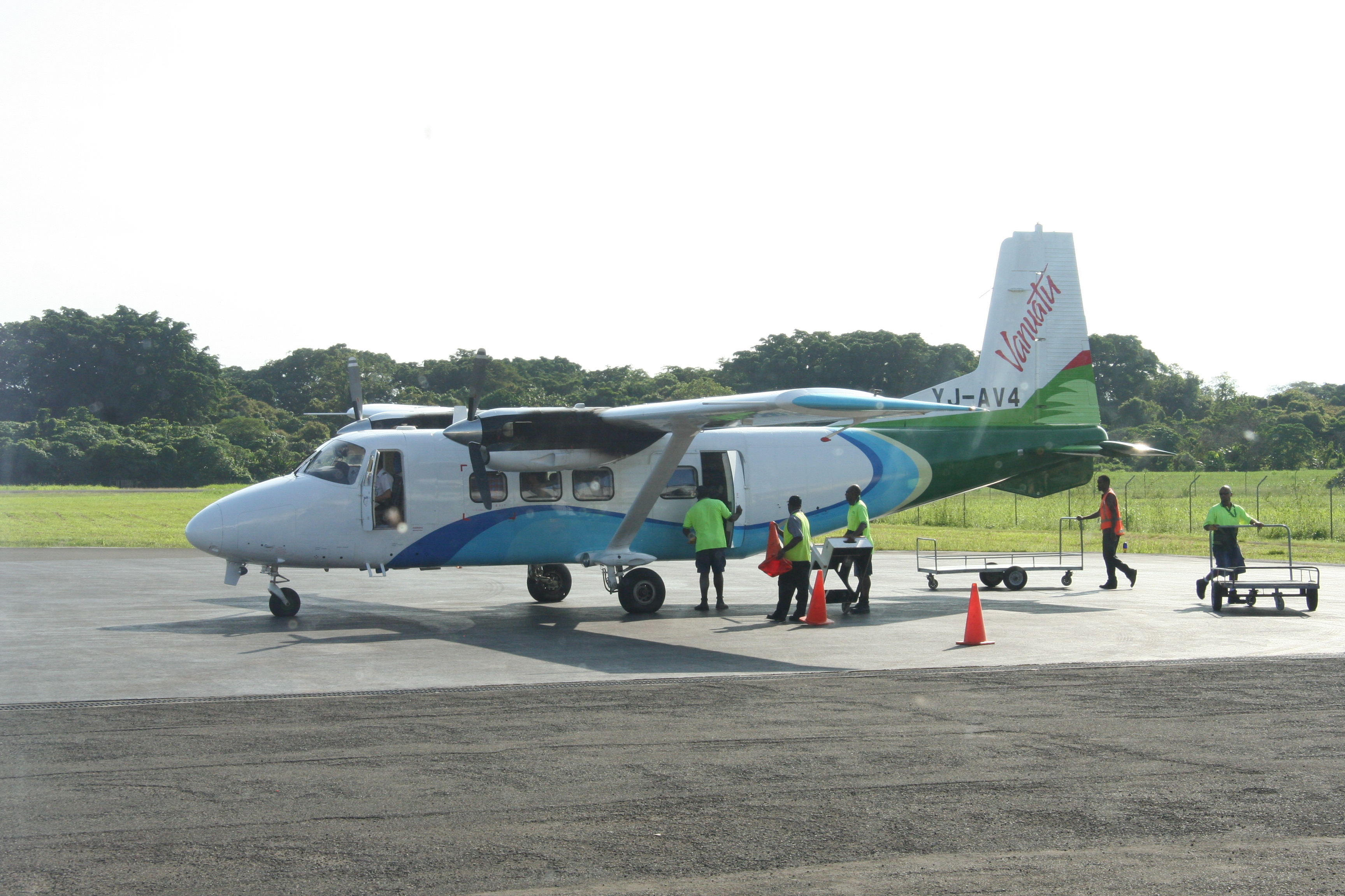 Air Vanuatu Harbin Y-12 (YJ-AV4) at Santo-Pekoa International Airport